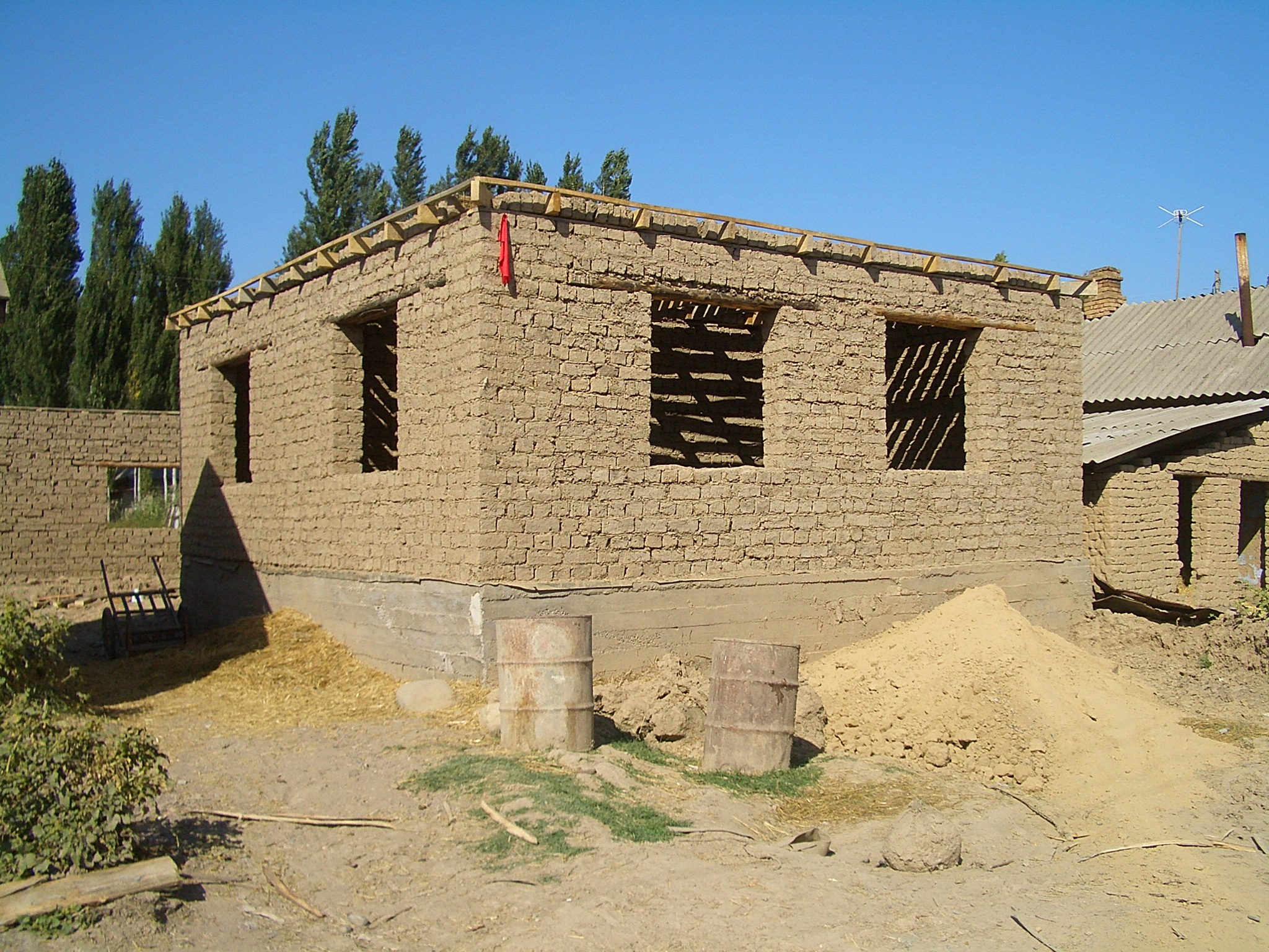 Adobe brick house under construction in Milyanfan village, Kyrgyzstan.